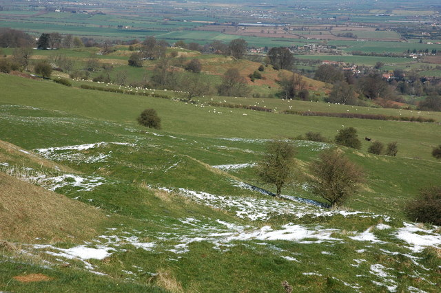 Site of Elmley Castle All that remains of Elmley Castle are earthworks, the castle was built in the late 11th century by Robert le Despenser but by the late 15th century it had been demolished and the stone carted off for other building projects such as Pershore Bridge. Here it is viewed from the Wychavon Way to the south.